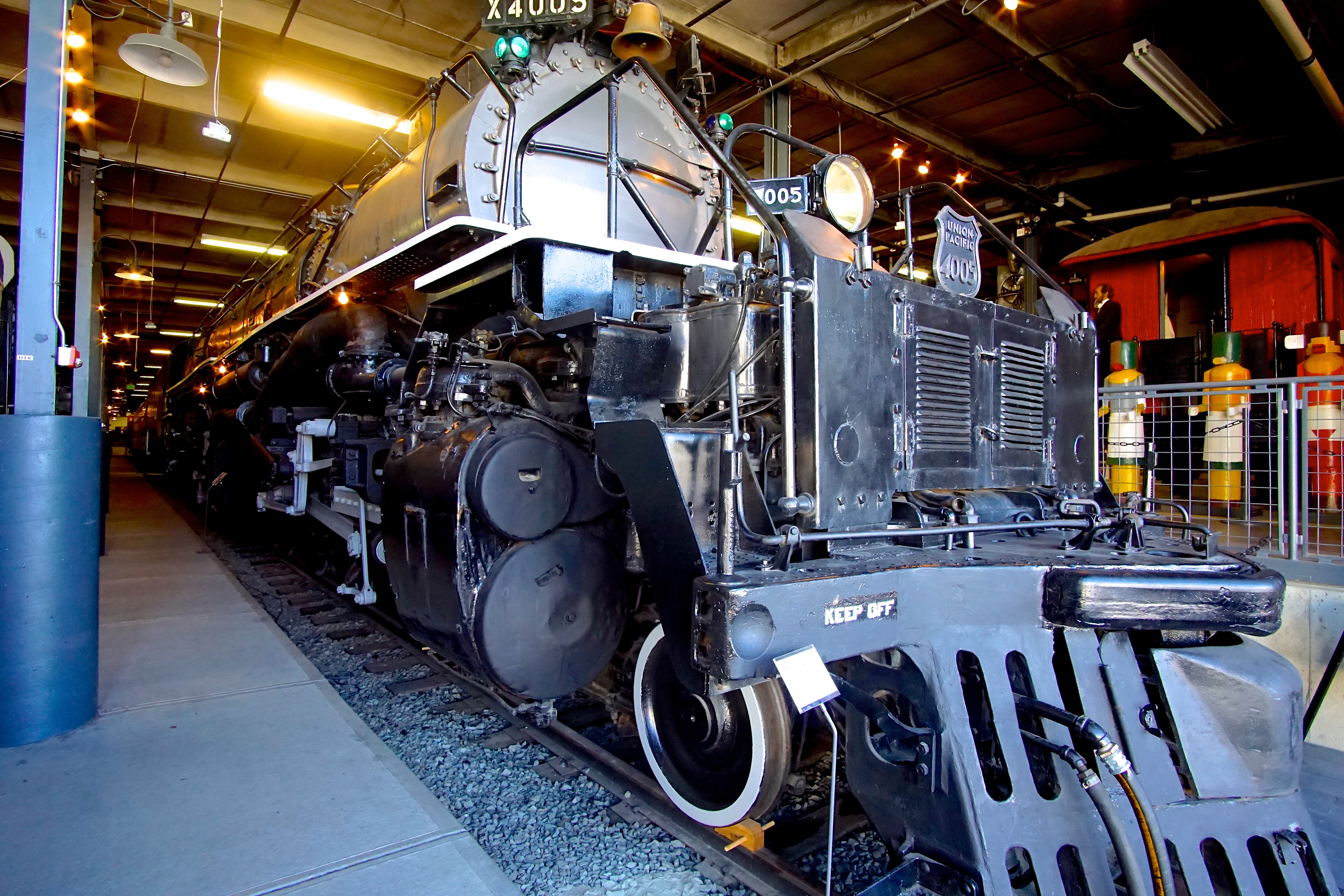 This is at Forney Transportation Museum in Denver, Colorado, US. Unfortunately it is in a situation that it is impossible to photograph well. However I am grateful it is preserved and not scrap metal